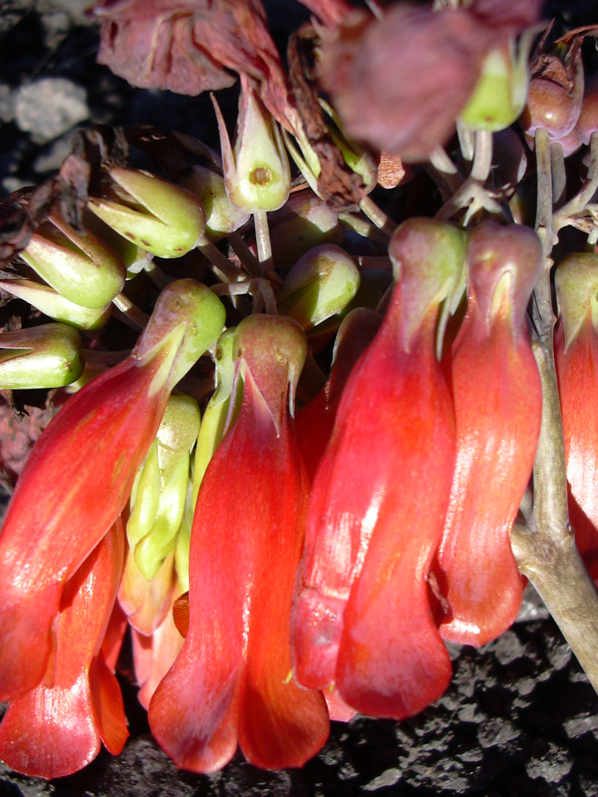 Kalanchoe tubiflora (flowers). Location: Maui, Kanaio